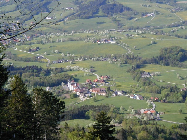 Gruentalkogelhuette - St. Gotthard